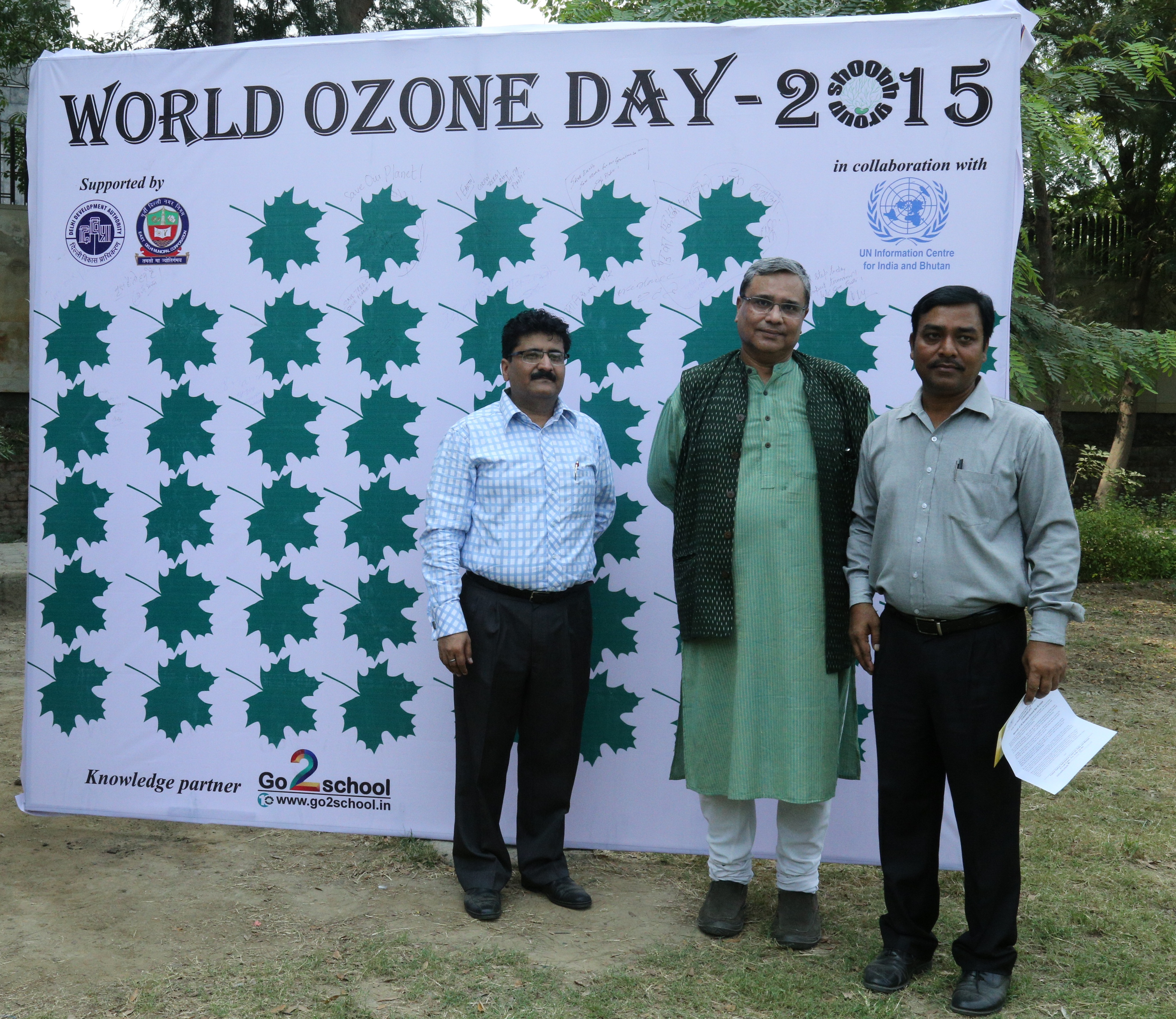 World Ozone Day-2015 a shOObh Group initiative in collaboration with UNIC, Supported By DDA & EDMC